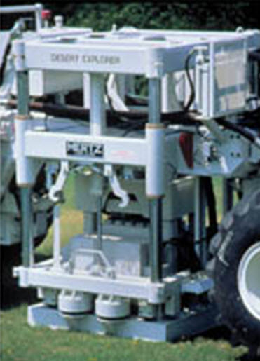 Seismic Acquisition